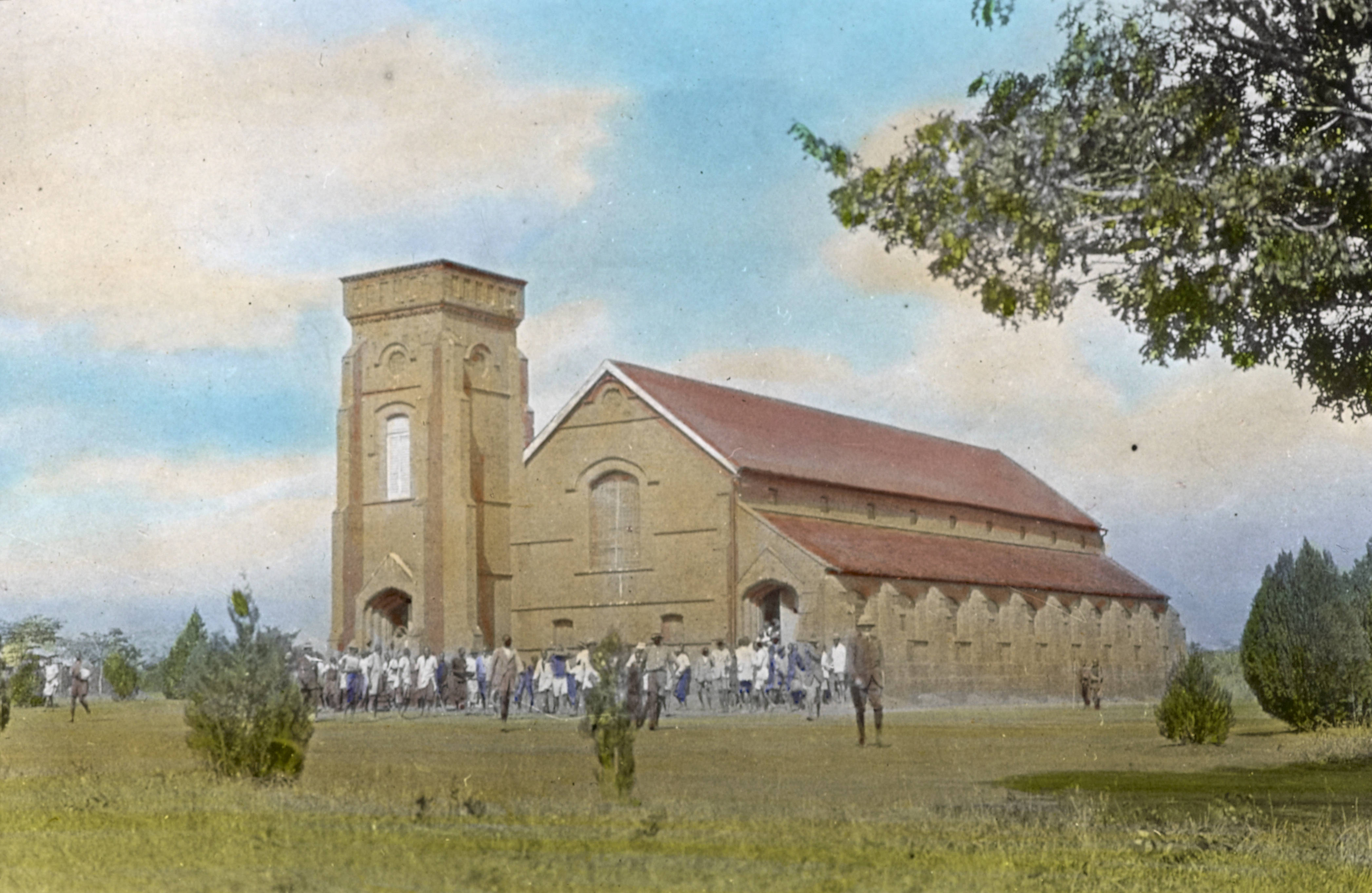 "Ekwendeni Church, Livingstonia" Malawi, ca.1895 Photograph of Ekwendeni Church. The church is a large red brick structure and a group of members of the congregation can be seen gathered outside. Ekwendeni, which is in the northern region of Malawi, was started by Scottish missionaries and has one of the oldest churches in Malawi. Photographer: Unknown Filename: imp-cswc-GB-237-CSWC47-LS3-1-056.tif Coverage date: circa 1895 Part of collection: International Mission Photography Archive, ca.1860-ca.1960 Type: images Part of subcollection: Photographs from the Centre for the Study of World Christianity, University of Edinburgh, U.K., ca.1900-ca.1940s Repository name: Centre for the Study of World Christianity Archival file: impaunpub_Volume7/1441.url Geographic subject (city or populated place): Ekwendeni Repository address: The University of Edinburgh School of Divinity, New College, Mound Place, Edinburgh EH1 2LX, United Kingdom Geographic subject (country): Malawi Format (aacr2): 1 lantern slide : 8 x 8 cm. Geographic subject (continent): Africa Rights: Contact the repository for details. Part of series: Elmslie of the Wild Ngoni LS3/1 Repository Subject (lcsh Keyword): Church buildings Date created: circa 1895 Publisher (of the digital version): University of Southern California. Libraries Subject (aat genre): exterior views Format (aat): lantern slides Legacy record ID: impa-m68451 Access conditions: File: GB 237 CSWC47/LS3/1/56